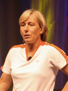 Martina Navrátilová